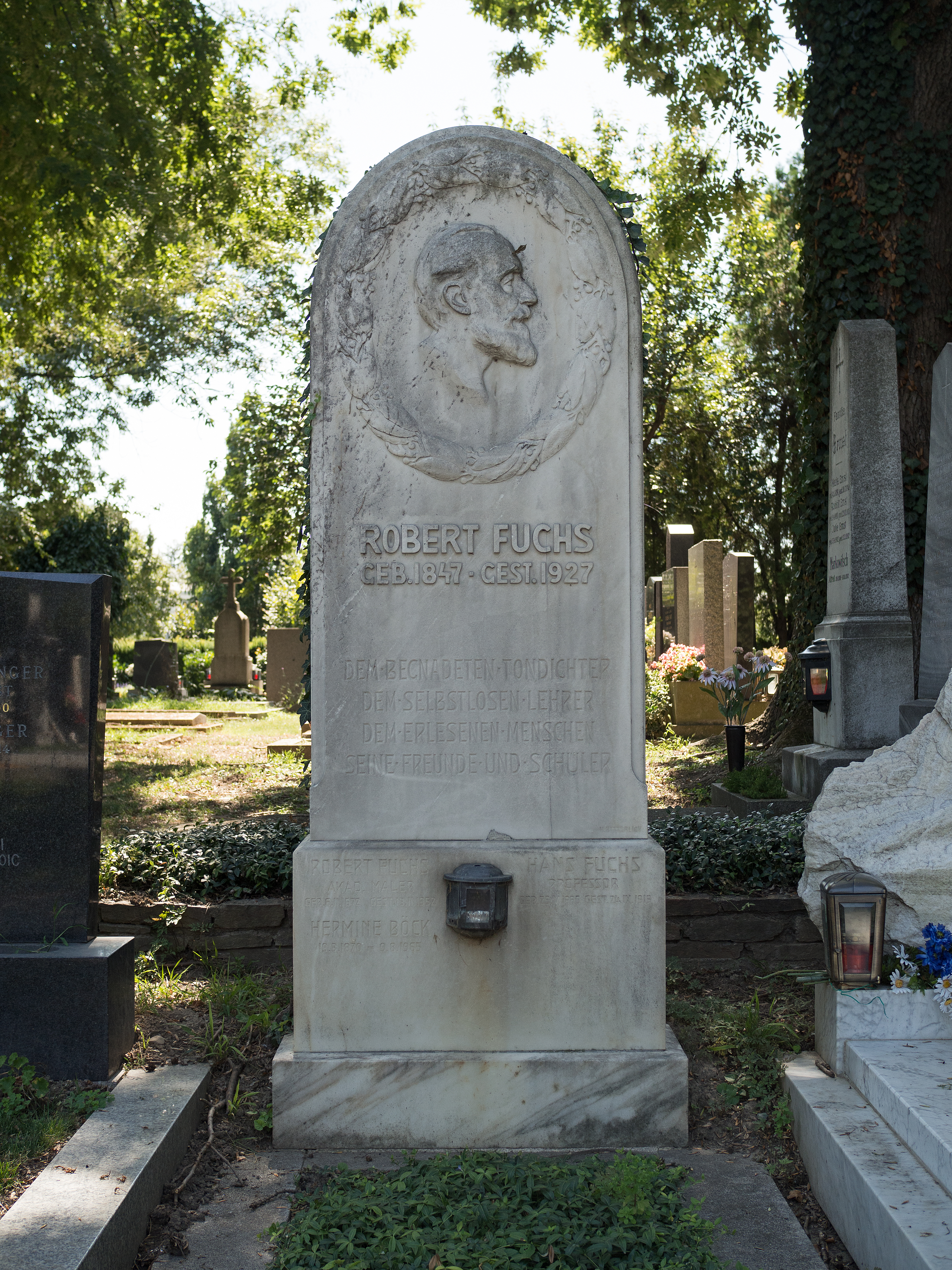 Grave of the composer and music teacher Robert Fuchs (1847–1927) and his sons Robert Fuchs (painter; 1872–1952) and Hans Fuchs (professor, philologist; 1880–1919) at the Vienna Central Cemetery (33E/3/5)